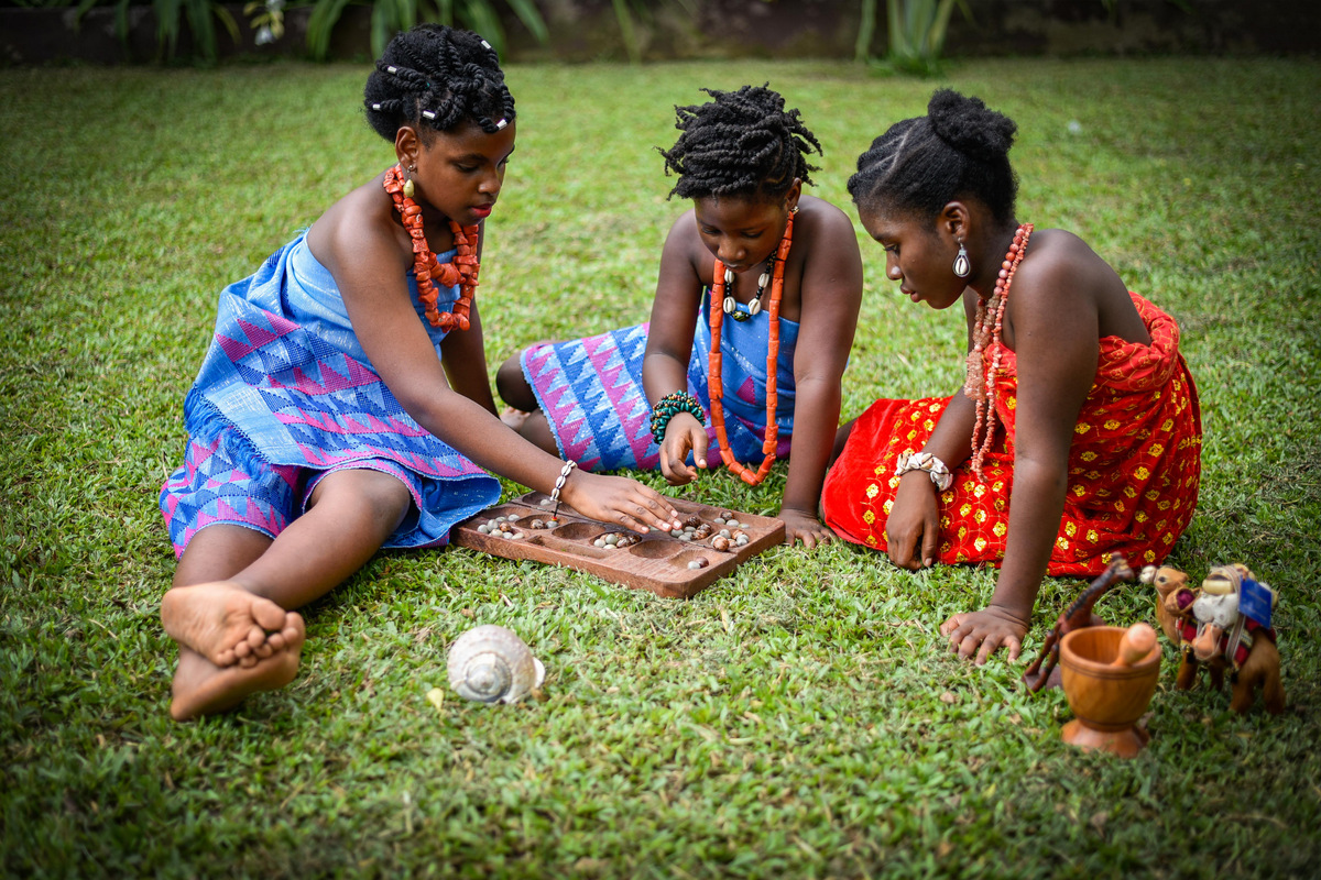 Three girls in traditional attire play ayo board game on a field This is an image with the theme "Play" from: Nigeria